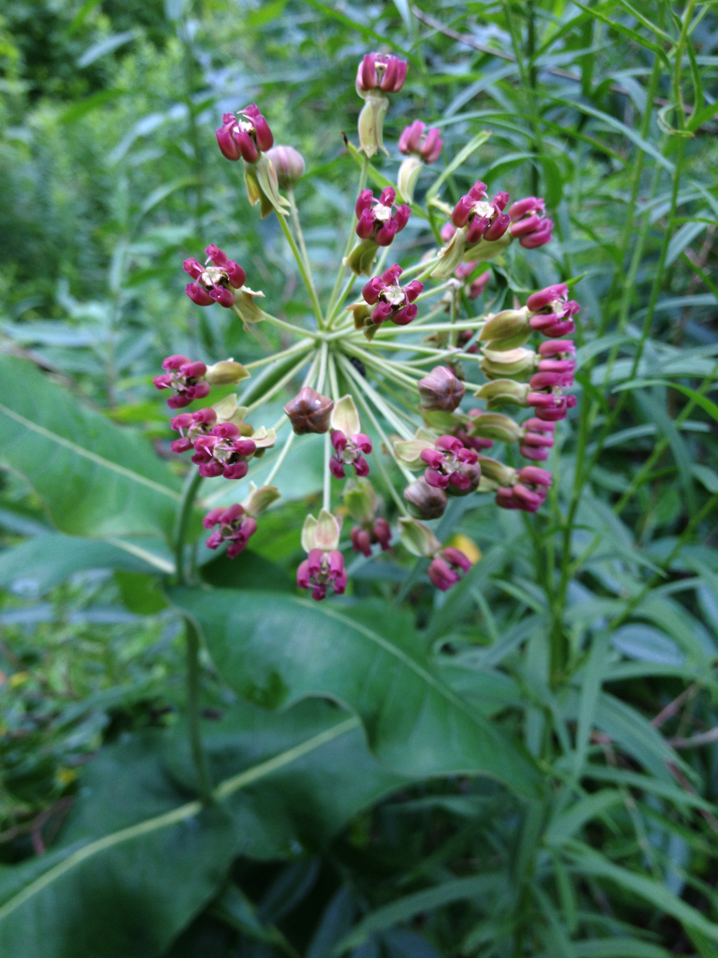 Asclepias amplexicaulis - clasping milkweed, blunt-leaved milkweed - Huntley Meadows Park, Alexandria, Virginia